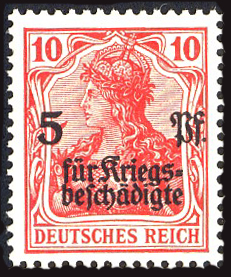 Postage stamp of German empire, 10+5 pfennigs for WWI victims, 1919